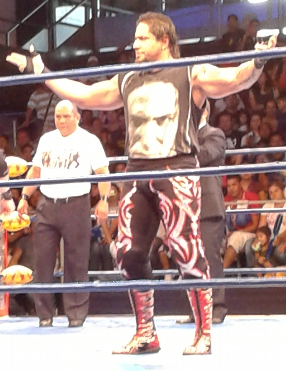 El Mesías during the 2012 ¿Quién Pinta para la Corona? held by Asistencia Asesoría y Administración on August 26, 2012 at Nave Lewis of Fundidora park in Monterrey, Nuevo León, Mexico.